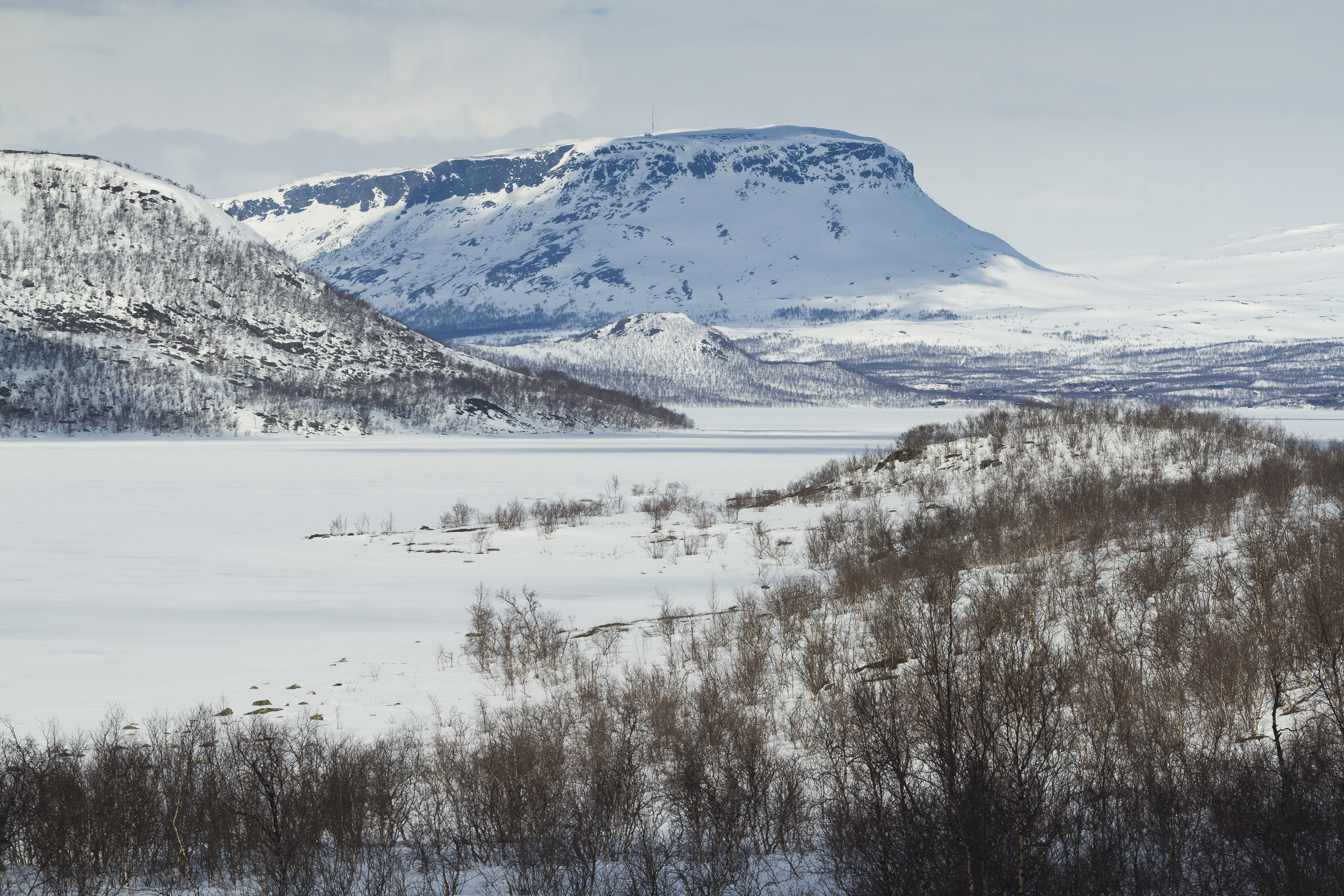 Saana fell (one of the highest fells in Finland) near Kilpisjärvi as seen from the south over Ala-Kilpisjärvi lake in Enontekiö, Lapland, Finland in 2015 April.